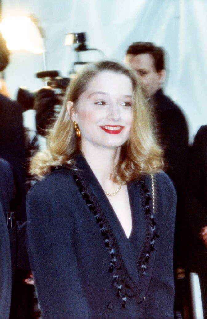 1990 Academy Awards NOTE: Permission granted to copy, publish, broadcast or post any of my photos, but please credit "photo by Alan Light" if you can. Thanks. Scanned from the original 35MM film negative.